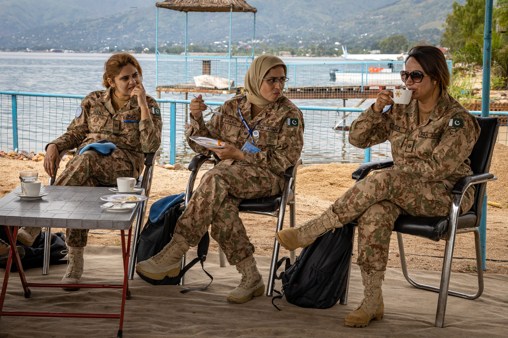 Pakistani Female Engagement Team and a member of the Irish Army carried out patrols, trained DRC Police & other activities to benefit the community. Photo: MONUSCO/Kevin Jordan